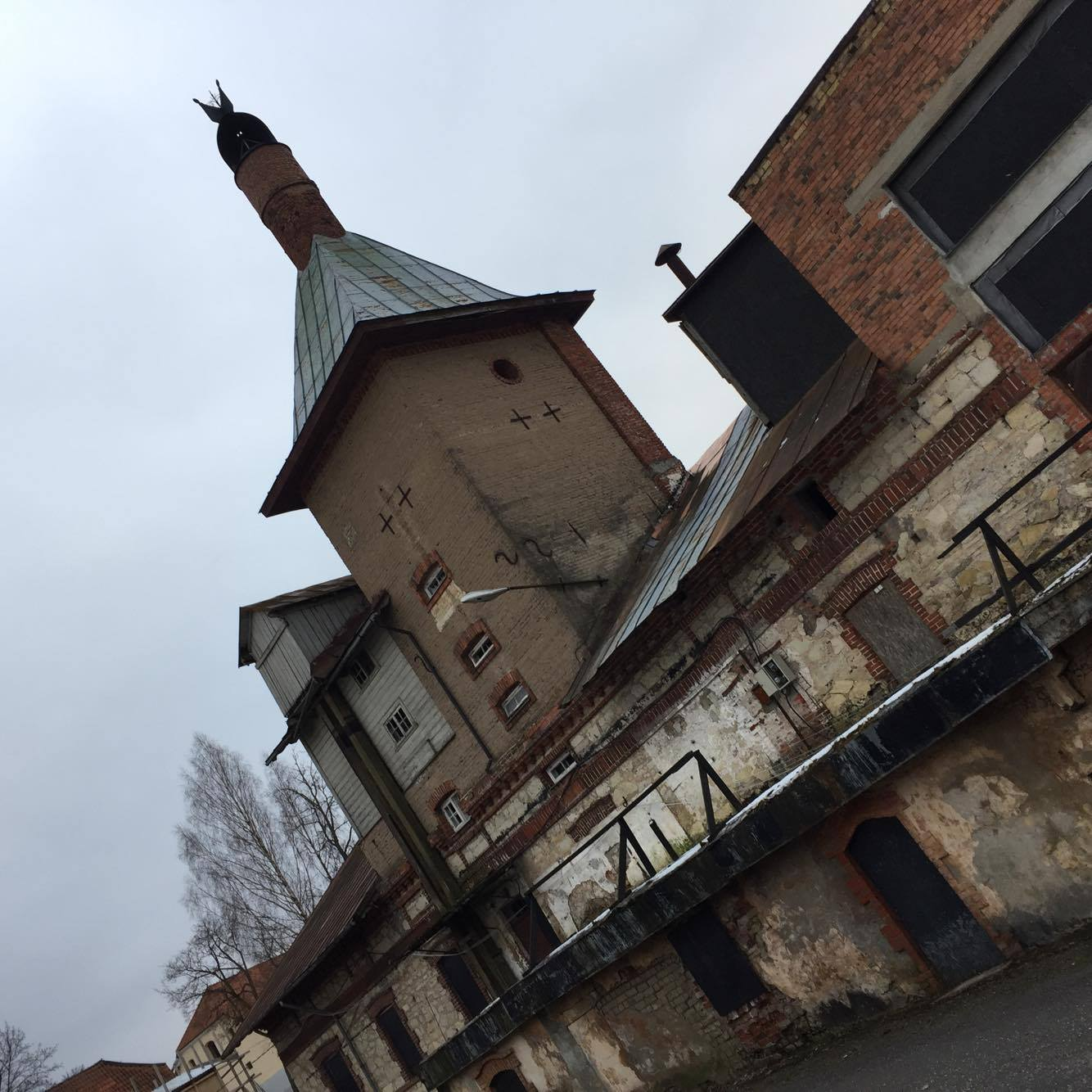 Virs rūpnīcas ēkas paceļas tornis ar vēja rādītāju.